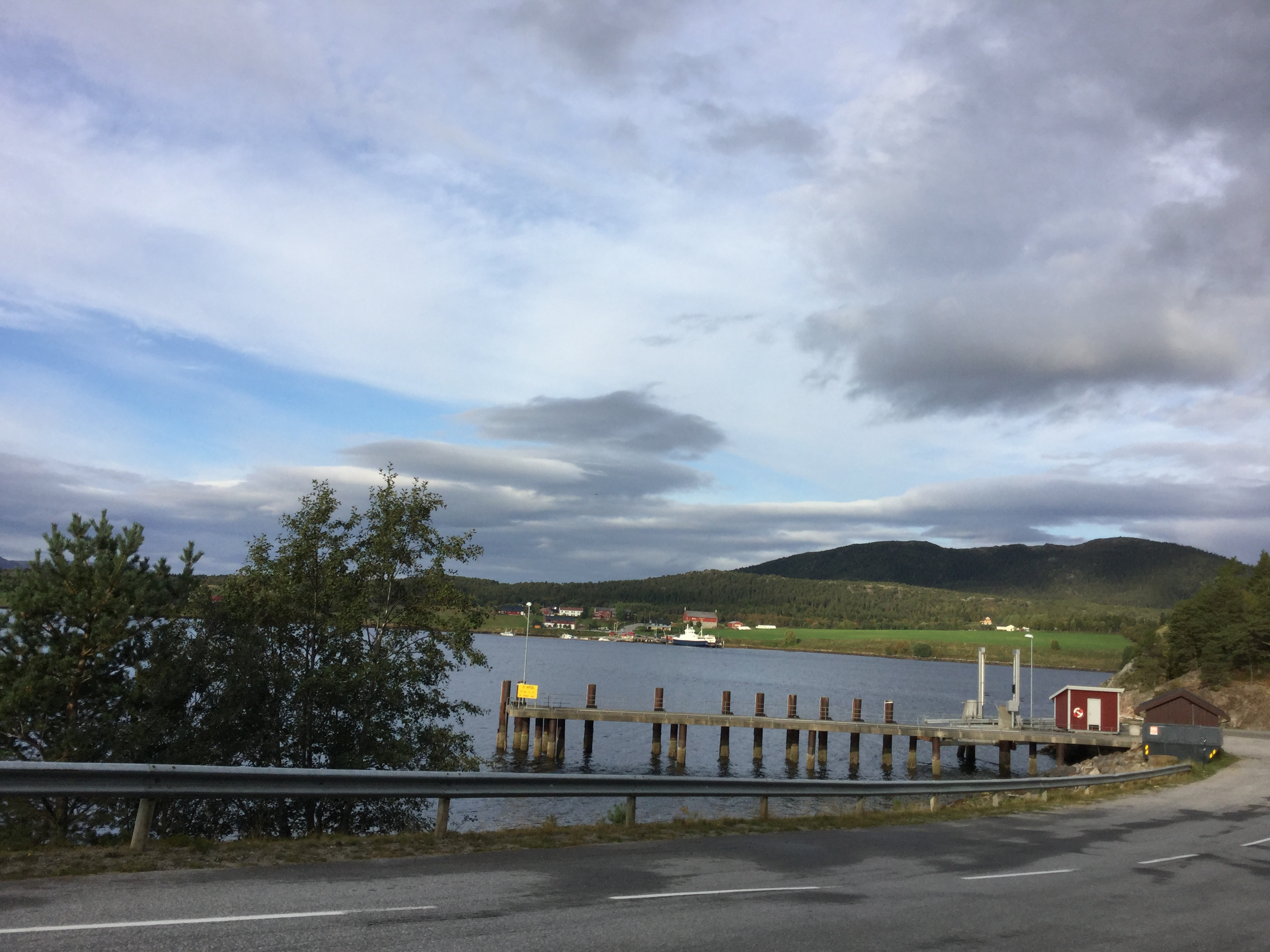 The island Jøa of Nord-Trøndelag, Norway seen from the ferry port at Ølhammeren.